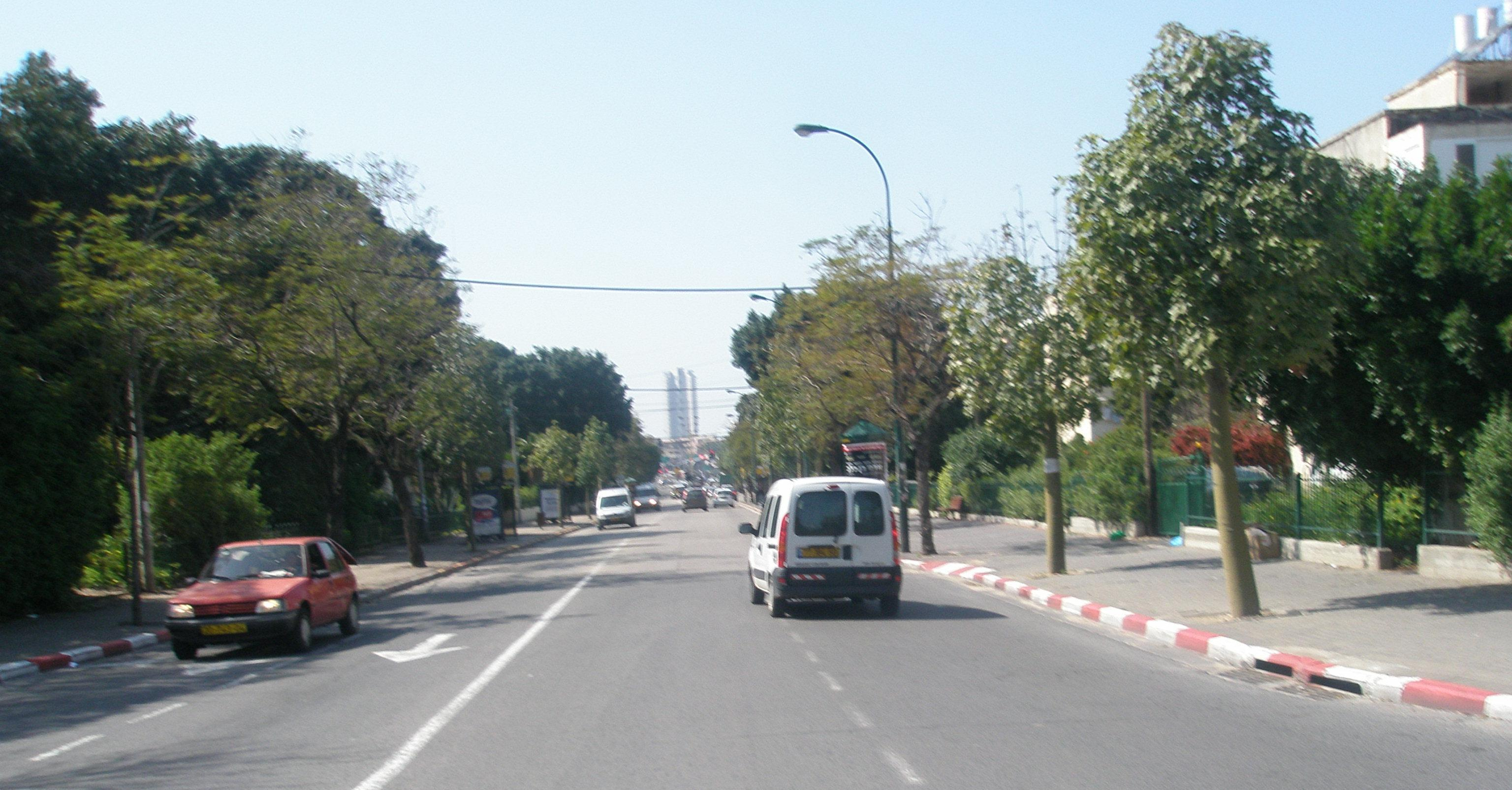 LaGuardia street, Tel Aviv